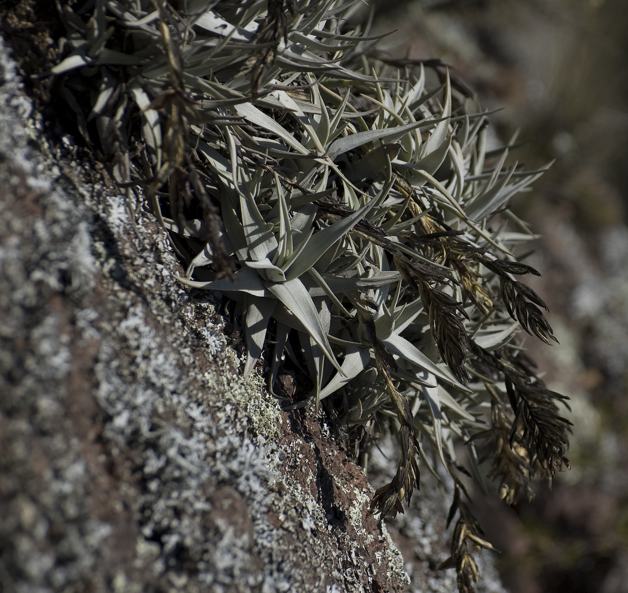 Tillandsia arequitae above Riolita in Cerro Arequita, department of Lavelleja, Uruguay. The species is endemic in Uriguay.